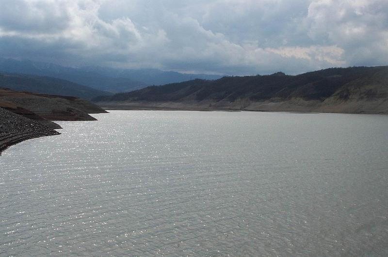 Sarsang reservoir, Nagorno-Karabagh